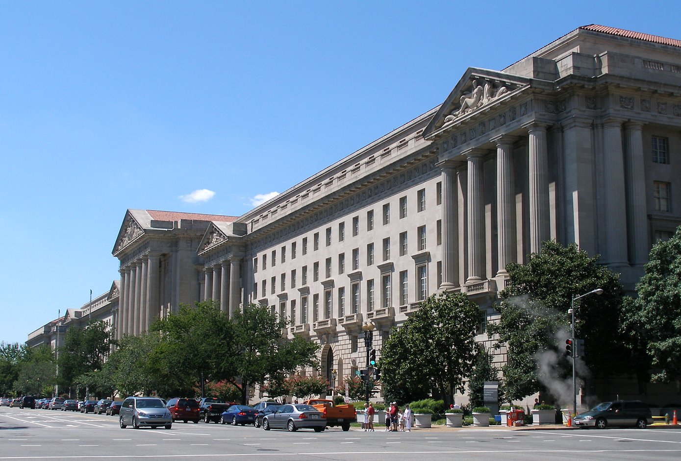 View of a portion of the headquarters complex of the United States Environmental Protection Agency (EPA) in Washington, D.C. Seen on the right is the former Interstate Commerce Commission Building, renamed as a component of the William Jefferson Clinton Building in 2013. Seen on the left is the Andrew W. Mellon Auditorium (which is not part of EPA Headquarters).